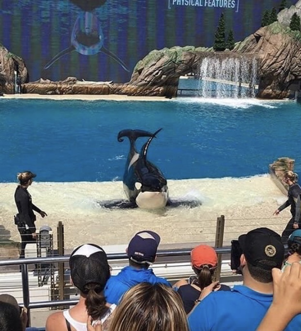 Nakai sliding out during Orca Encounter